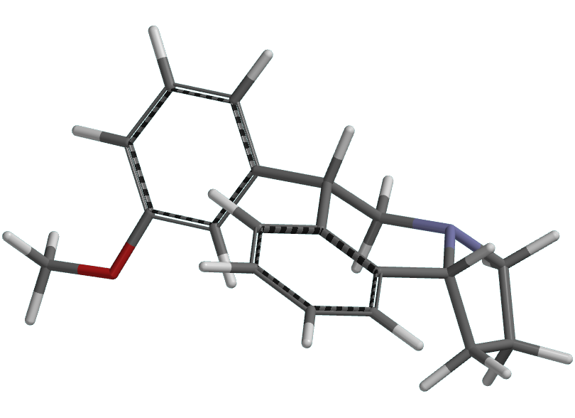 The compound is an antidepressant synthesized by Bruce Maryanoff et al. in 1987. In the article, the compound is compound 12B. The file was made with Spartan '08, and the equilibrium geometry was calculated with the semi-empirical model with PM3 as the method. As a reference, the digital object identifier is